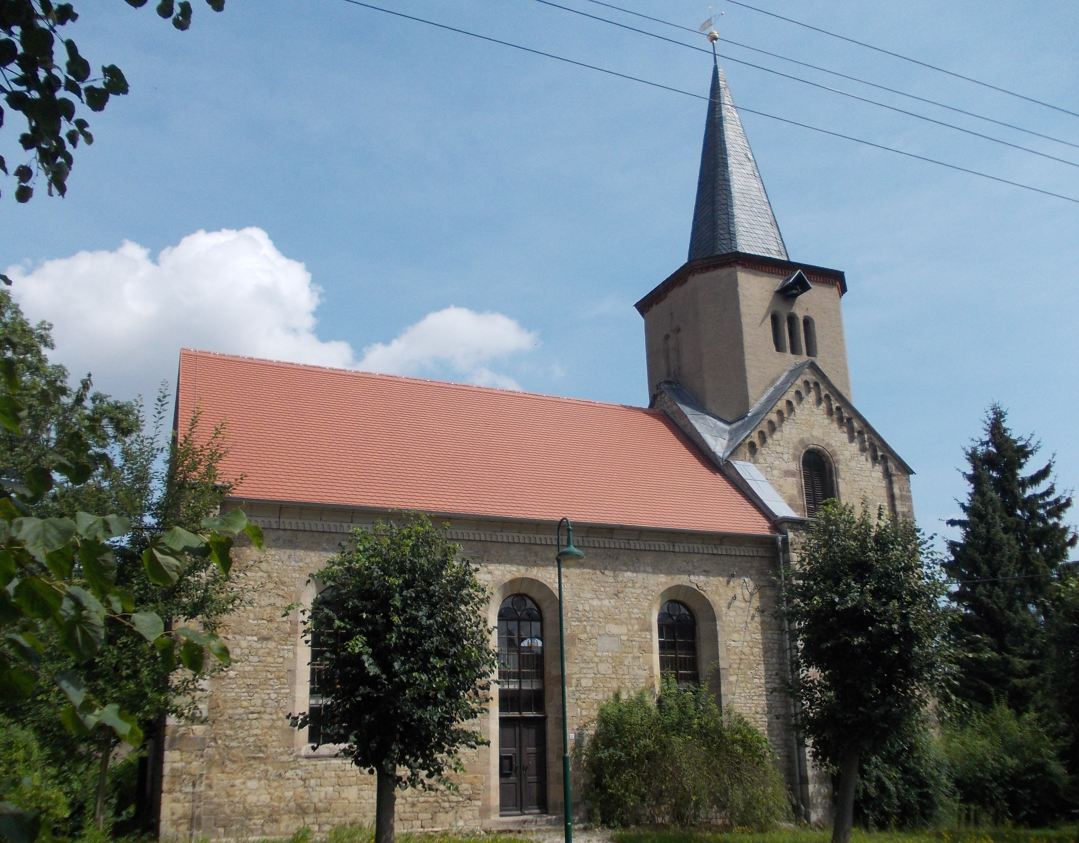 St. Wigbert's church in Lissdorf (Eckartsberga, district: Burgenlandkreis, Saxony-Anhalt)